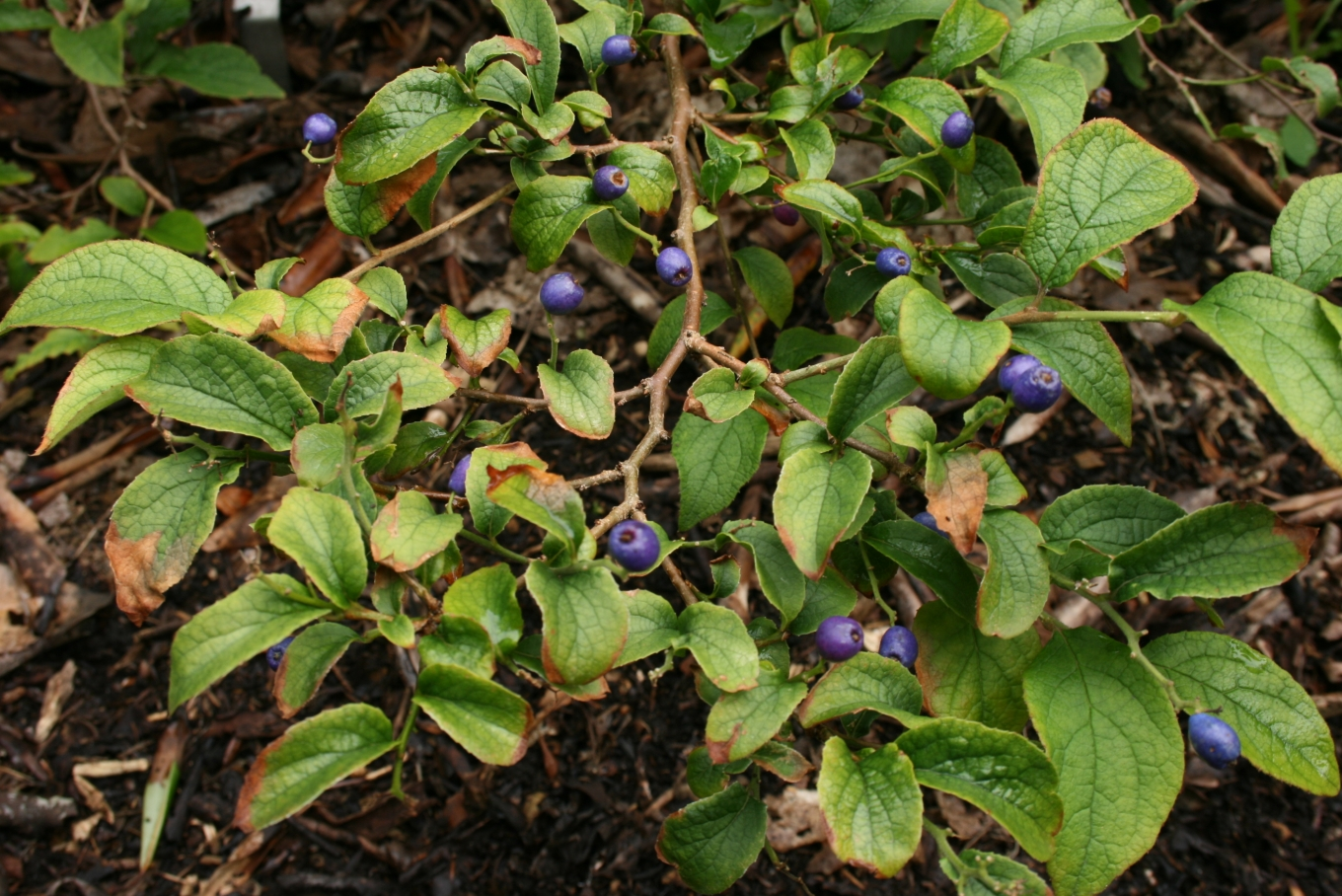 Symplocos paniculata: Foliage and berries.